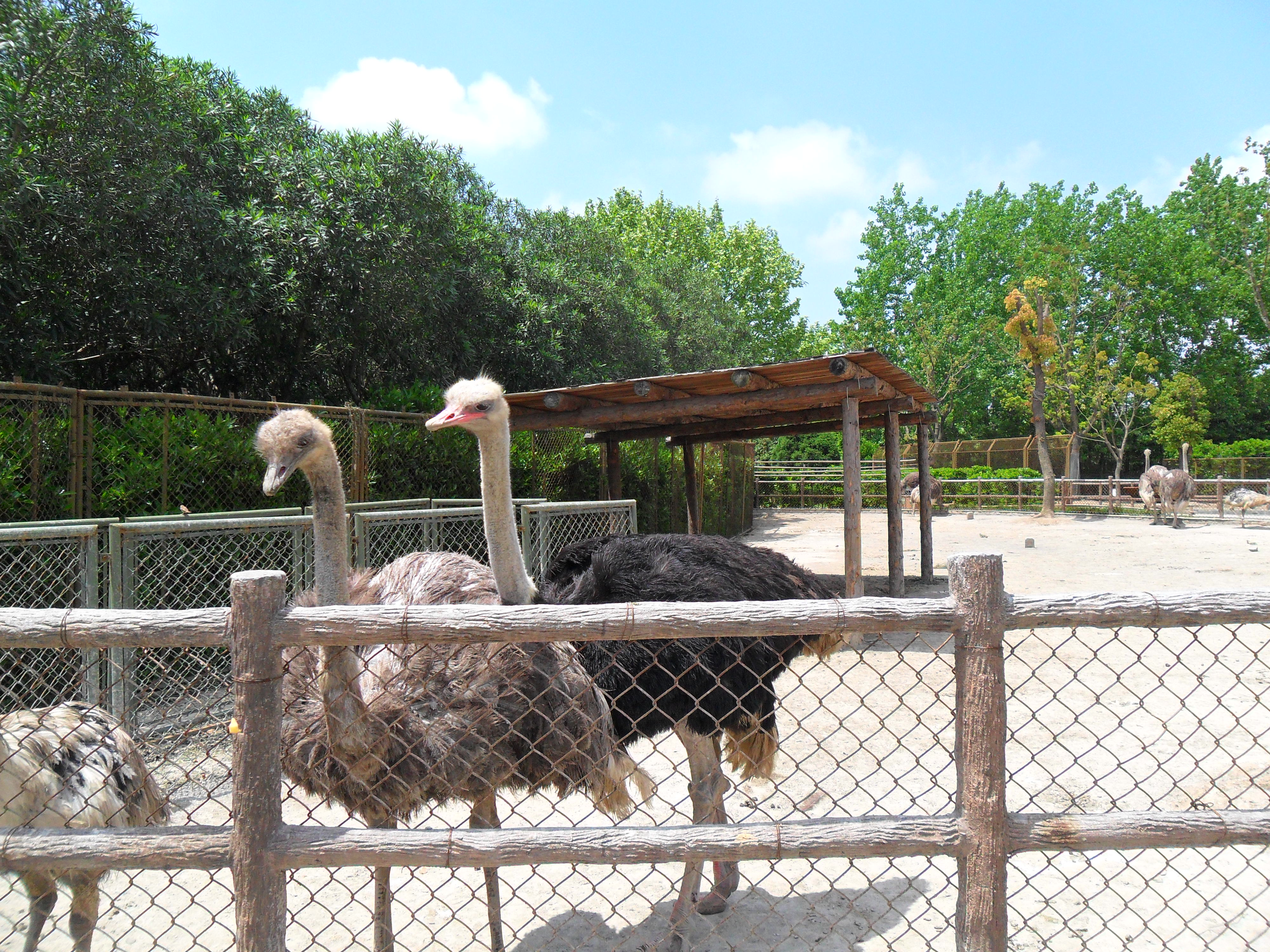 Shanghai Wild Animal Park